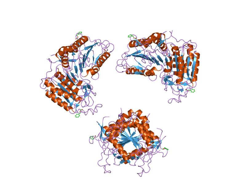 Cartoon representation of the molecular structure of protein registered with 1f9e code.